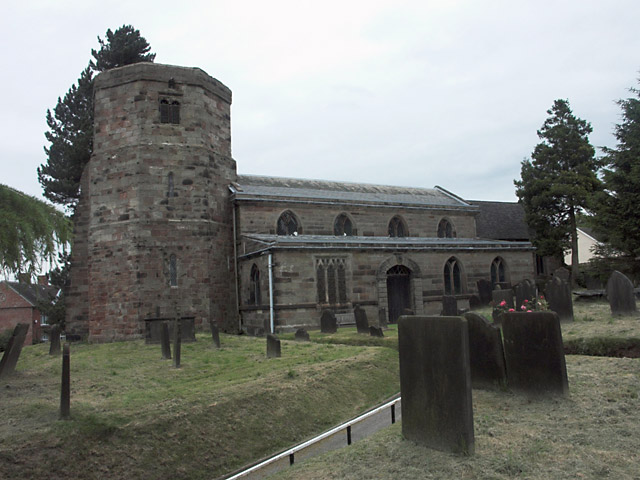 All Saints' parish church, Dilhorne, Staffordshire, seen from the southwest